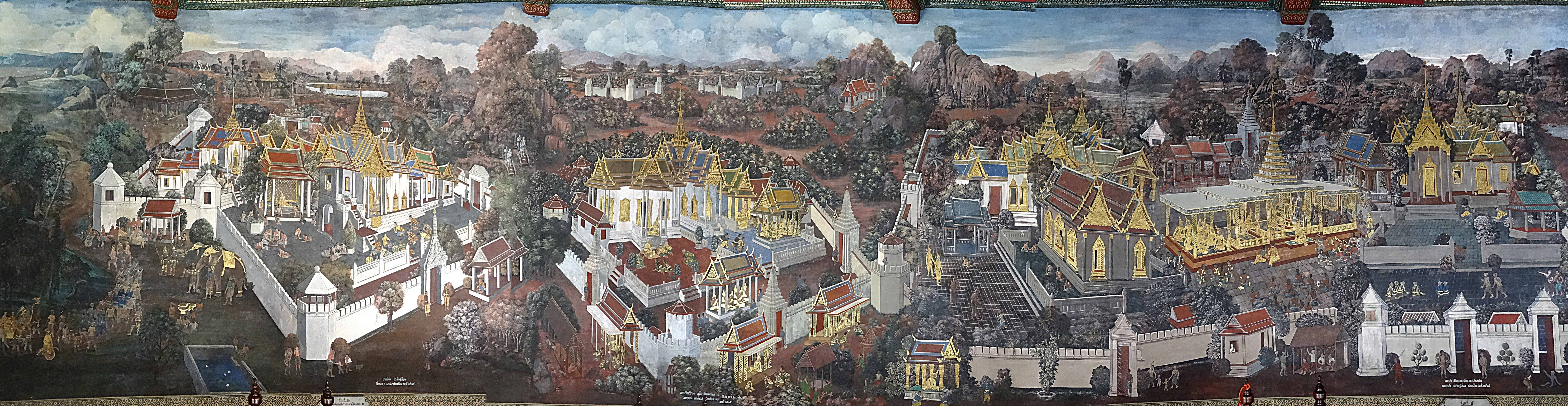 Part of the Ramakien mural in the cloister of the Temple of the Emerald Buddha in the Grand Royal Palace from Bangkok